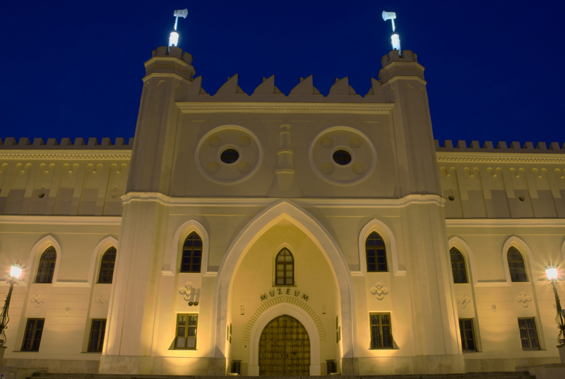 Castle in Lublin - currently a museum